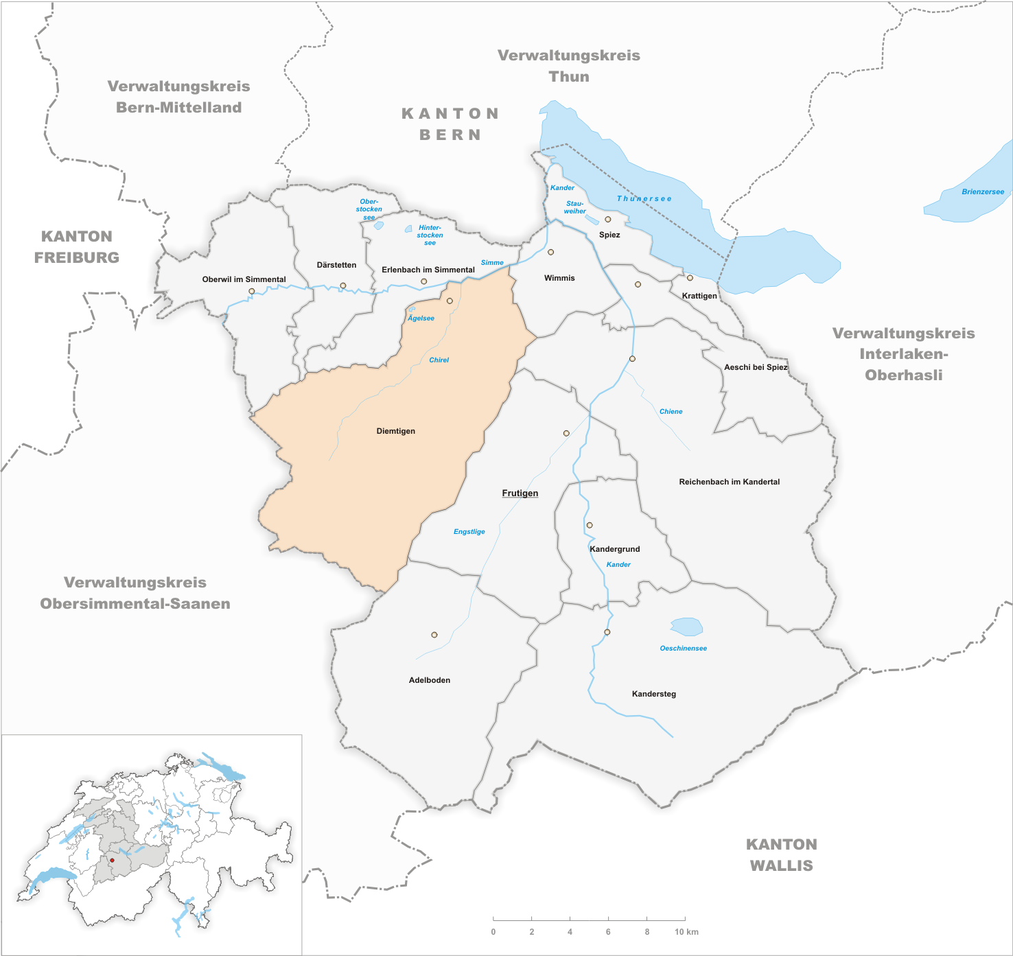 Municipality Diemtigen